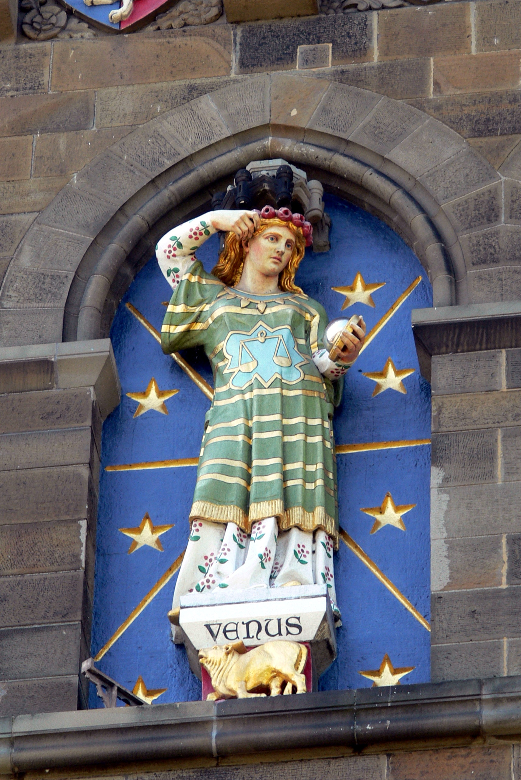 Cardiff castle ( Wales ). Clock tower ( 1869 ): Statue of Venus.